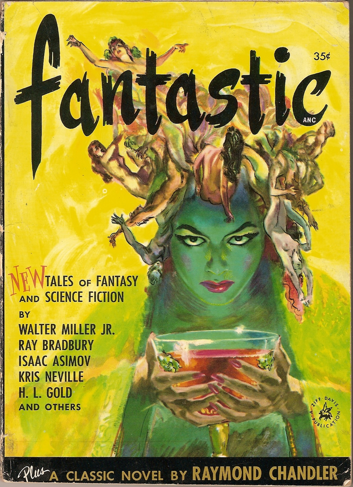 Cover of Summer 1952 issue of Fantastic. Artist is Barye Philips and L.R. Summers. Copyright was either Philips and Summers, or more likely Ziff-Davis, who published the magazine.